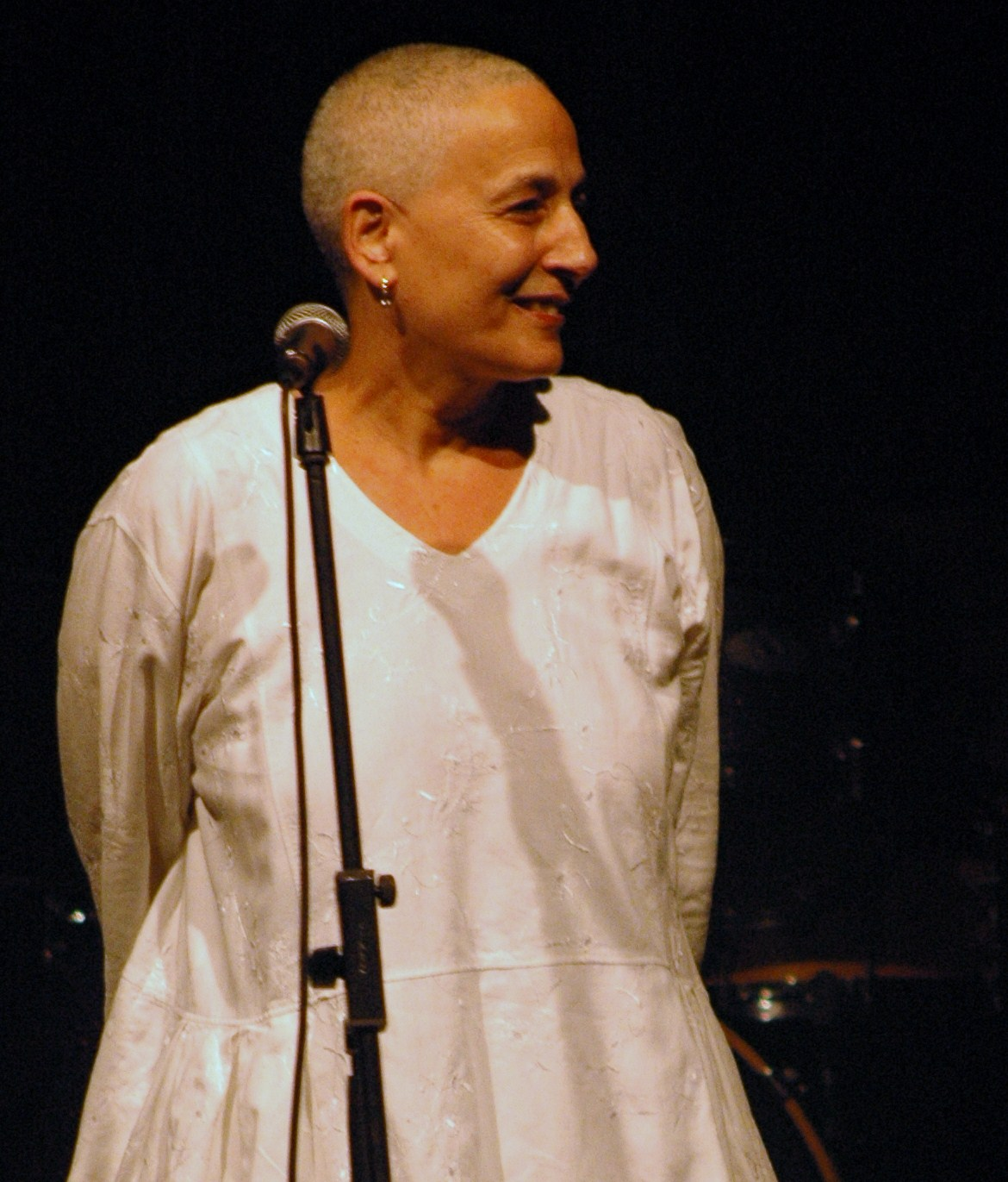 Rivka Zohar during a conert on October 1st 2010 in Tel Aviv.